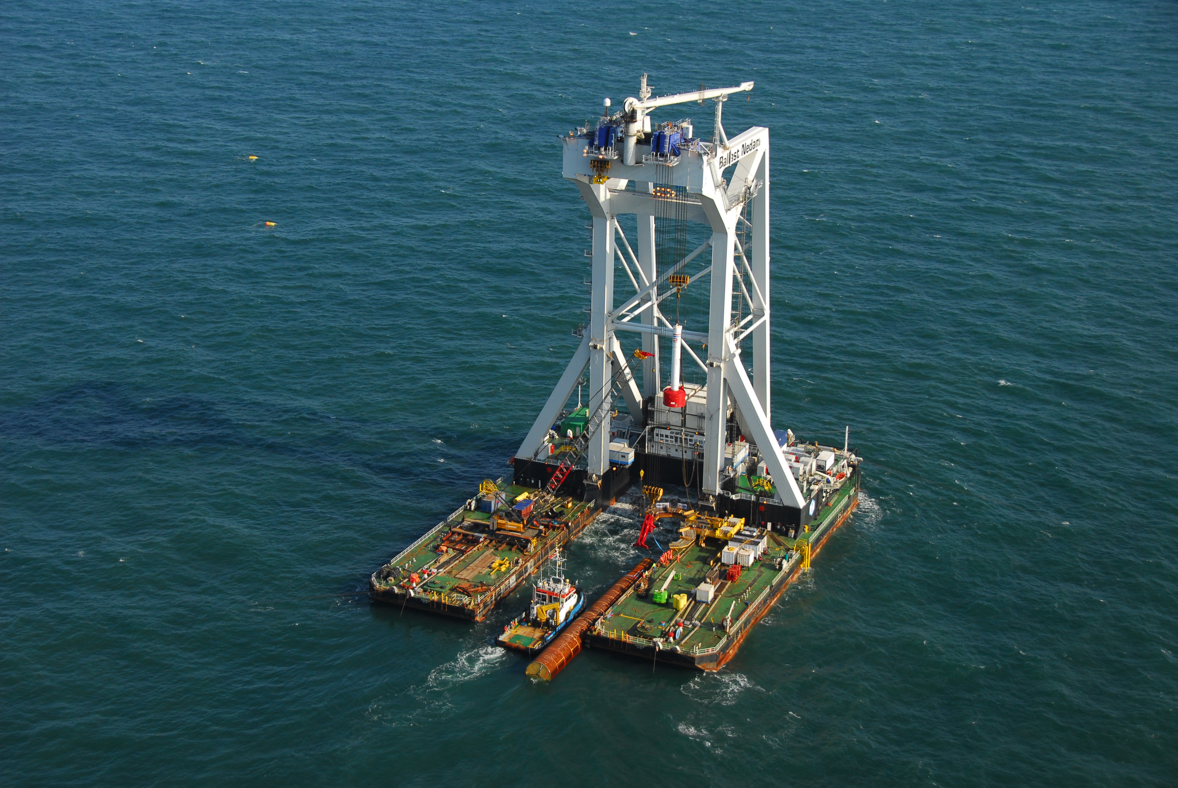 HLV Svanen at the Belwind Offshore Wind Farm